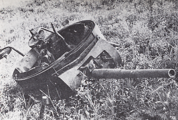 Battle of Lake Khasan-Destroyed Soviet tank